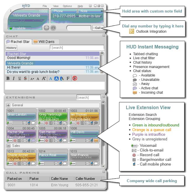 HUD ScrenShoot